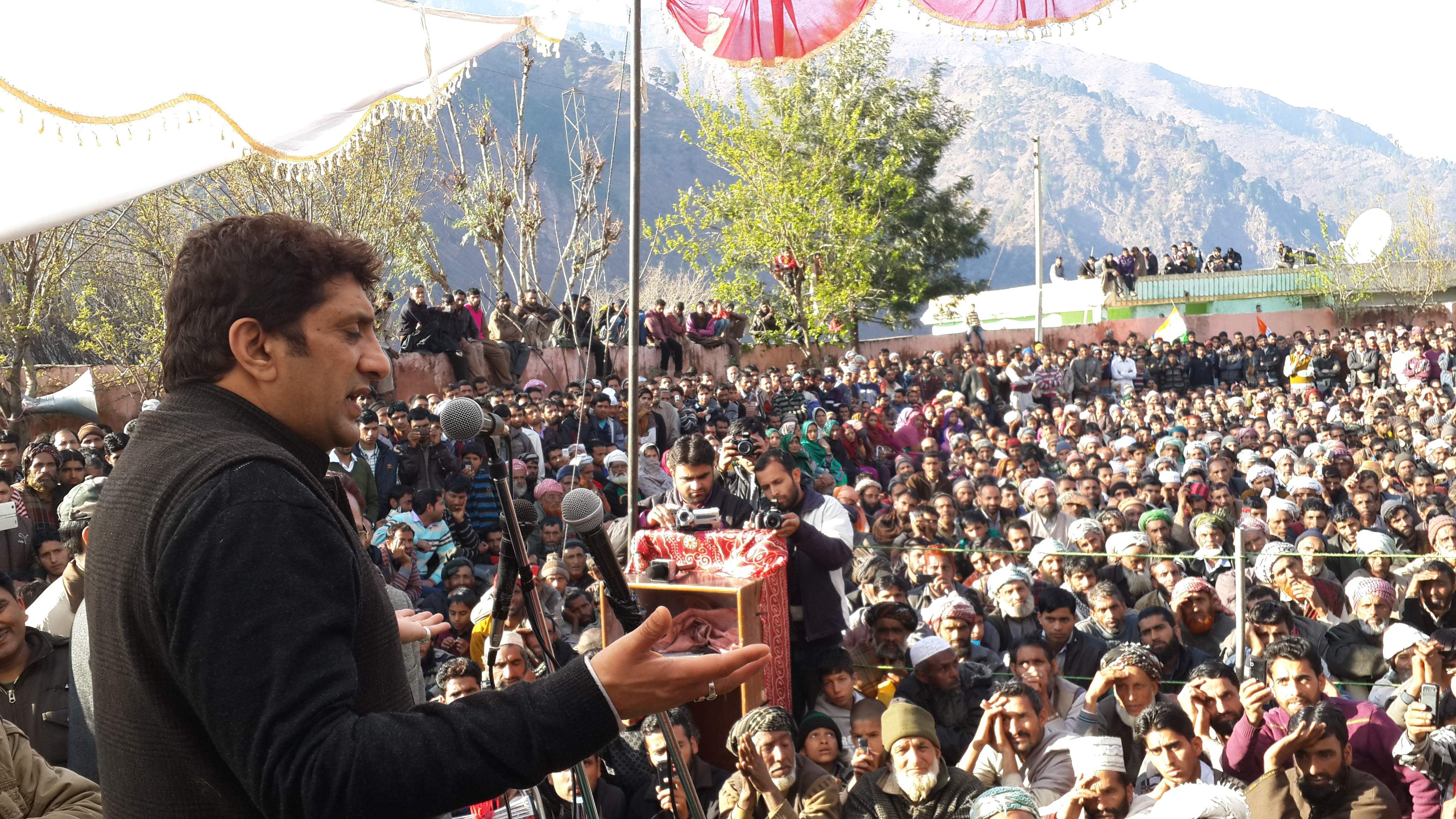 Ajaz after winning elections at Gool